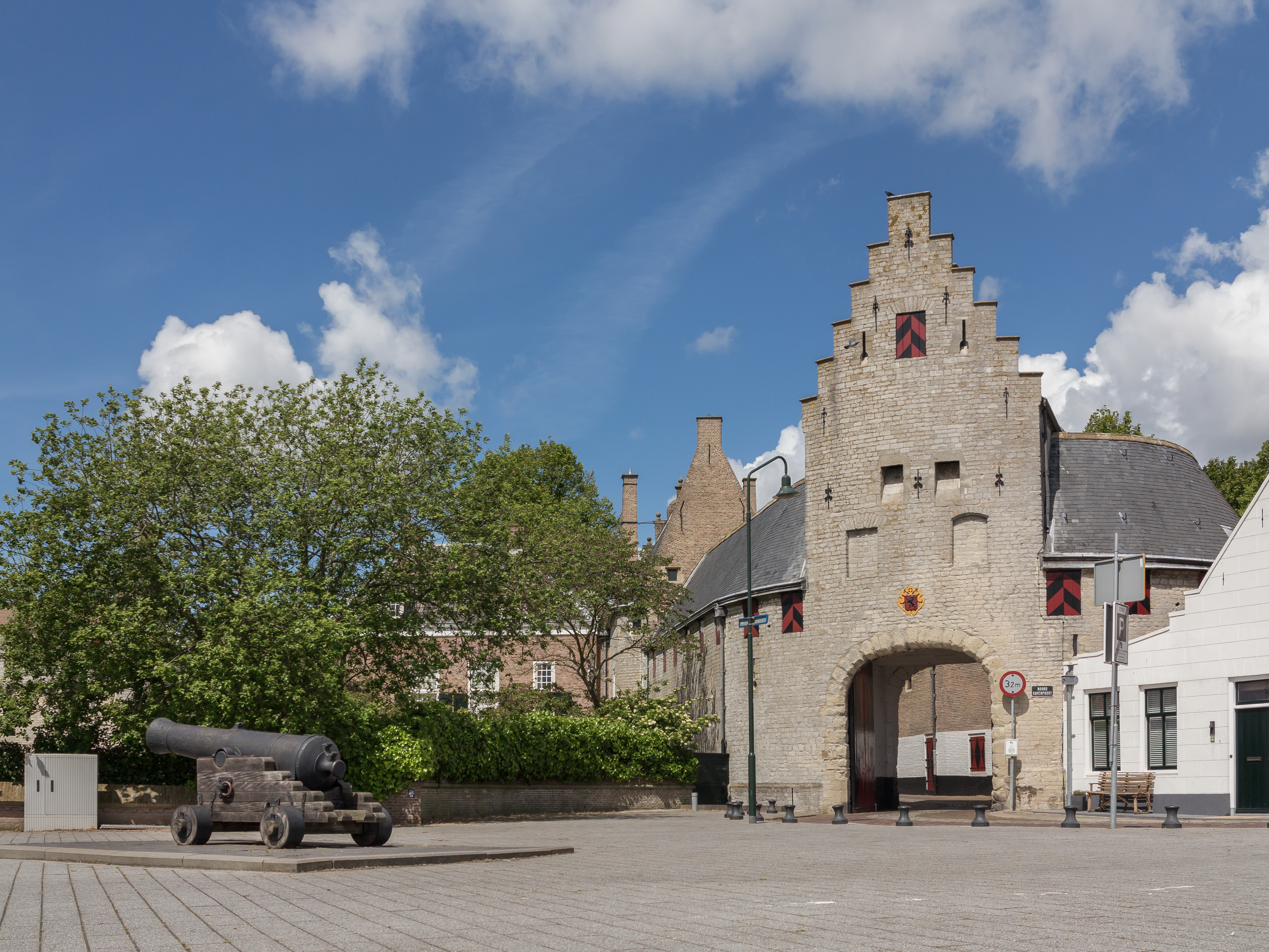 Zierikzee, town gate: de Noordhavenpoort